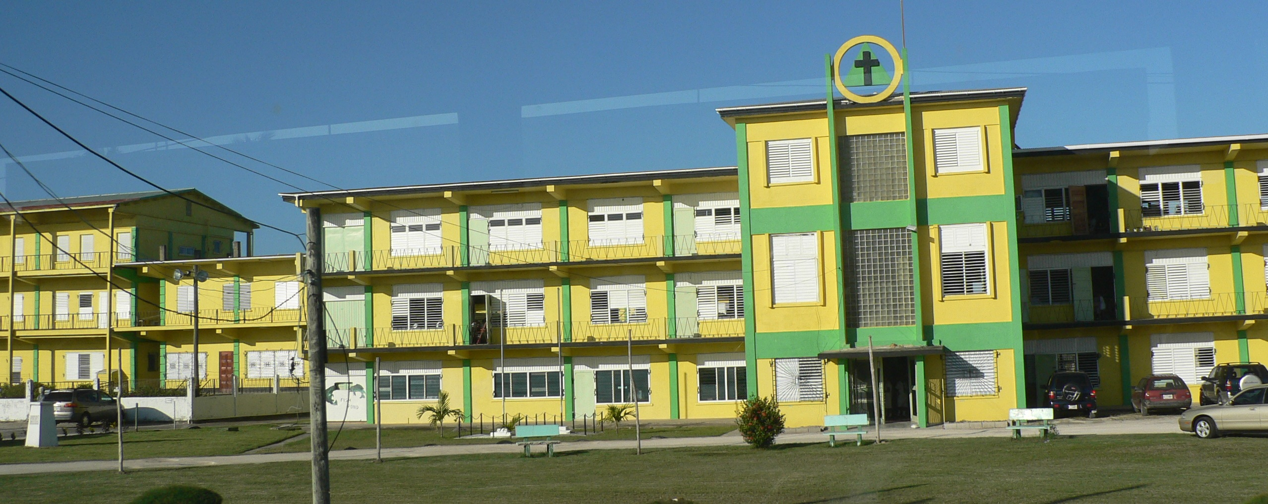 Pallotti Girl's High School, Belize City, Belize